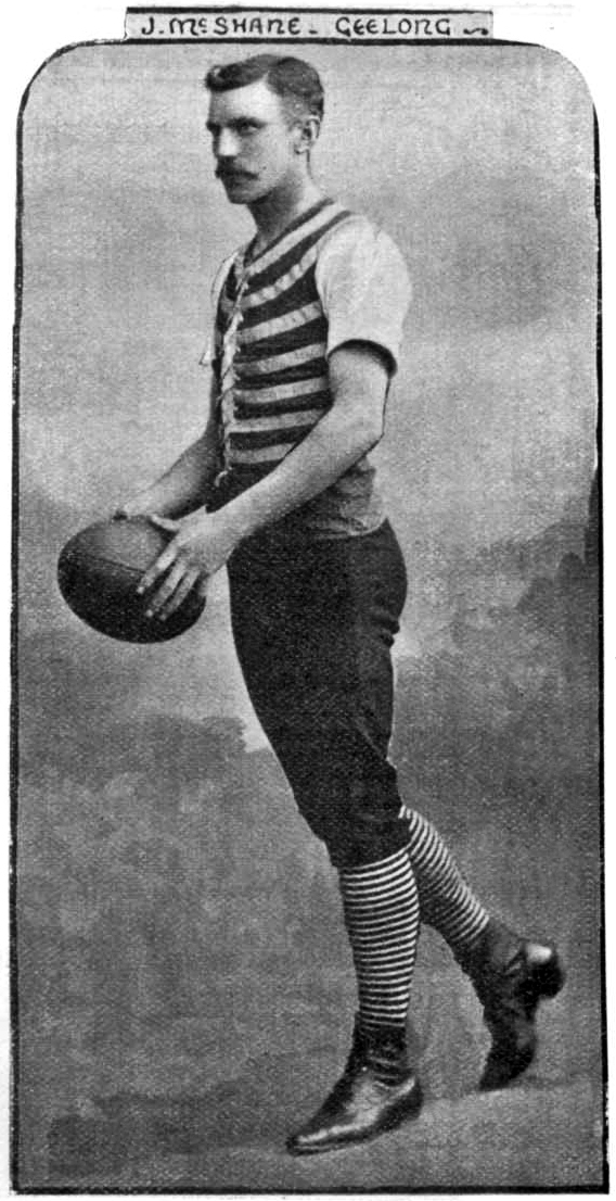 Photomechanical print of Jim McShane, from Geelong Football Club. Original uploader was Longhair at en.wikipedia